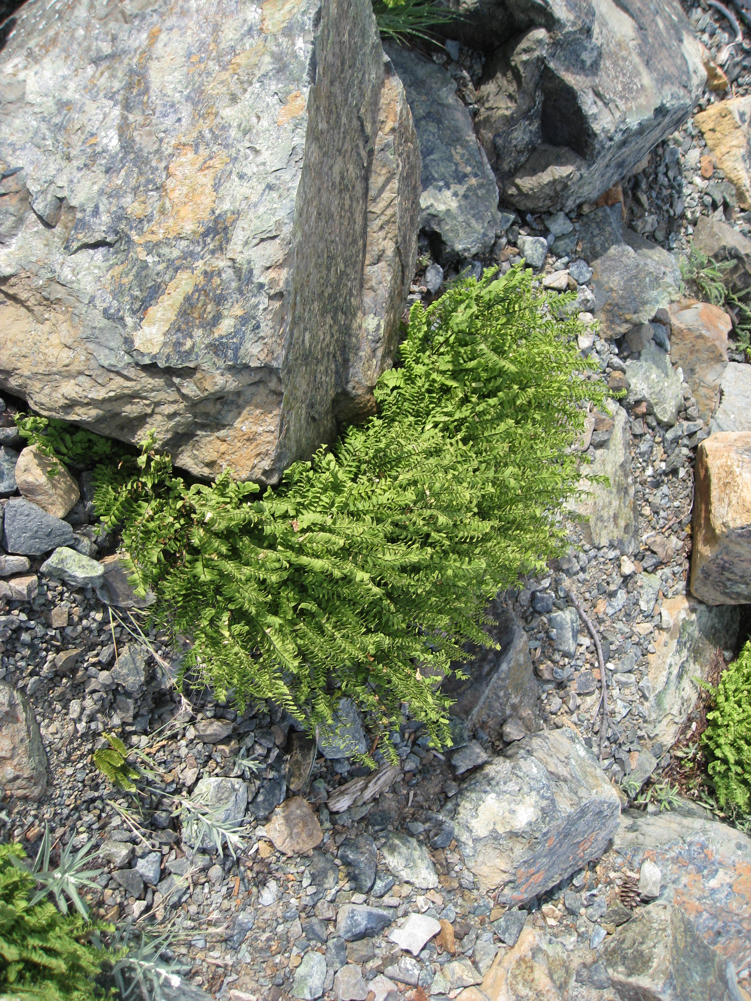 On serpentine rock and soil, Ingalls Lake trail, Kittitas County, Washington, USA